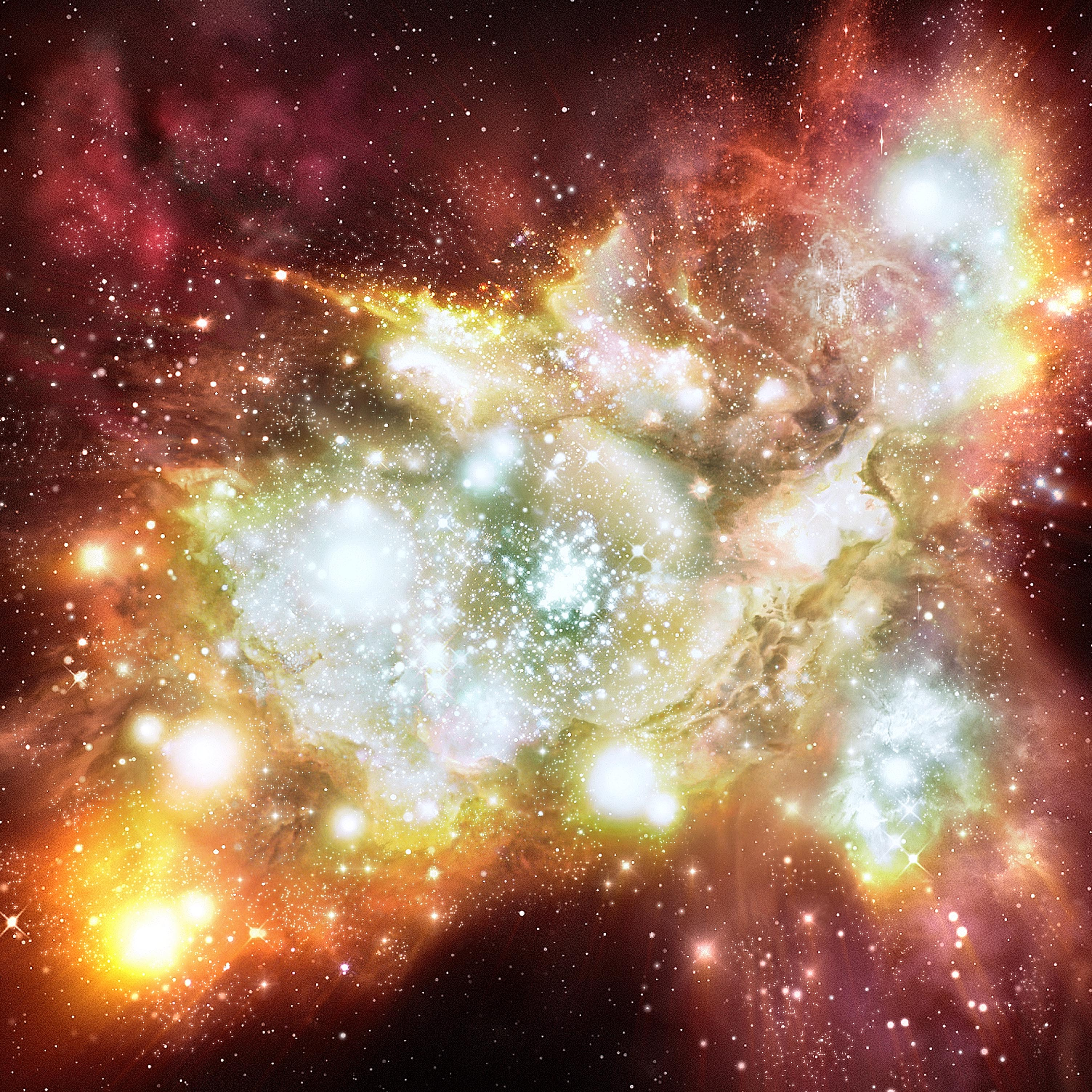 This illustration shows an artist's impression of the so-called Lynx arc, a newly identified distant super-cluster that contains a million blue-white stars twice as hot as similar stars in our Milky Way galaxy. The Lynx arc is one million times brighter than the well-known Orion Nebula, a nearby prototypical starbirth region visible with small telescopes. The stars in the Lynx arc are more than twice as hot as the Orion Nebula's central stars, with surface temperatures up to 80 000 °C. Though there are much bigger and brighter star-forming regions than the Orion Nebula in our local Universe, none are as bright as the Lynx arc, nor do they contain such large numbers of hot stars. The stars are so hot that a very large fraction of their light is emitted in the ultraviolet that makes the gas glow with the green and red colours illustrated here.